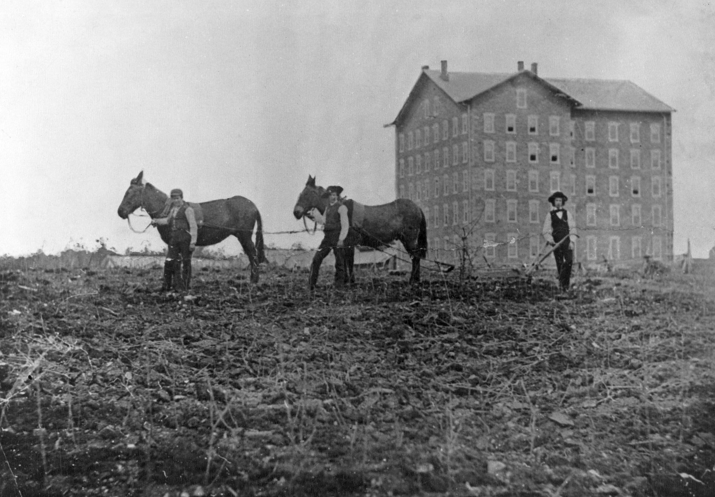 Farmer's High School, which is now the Old Main in Pennsylvania State University.